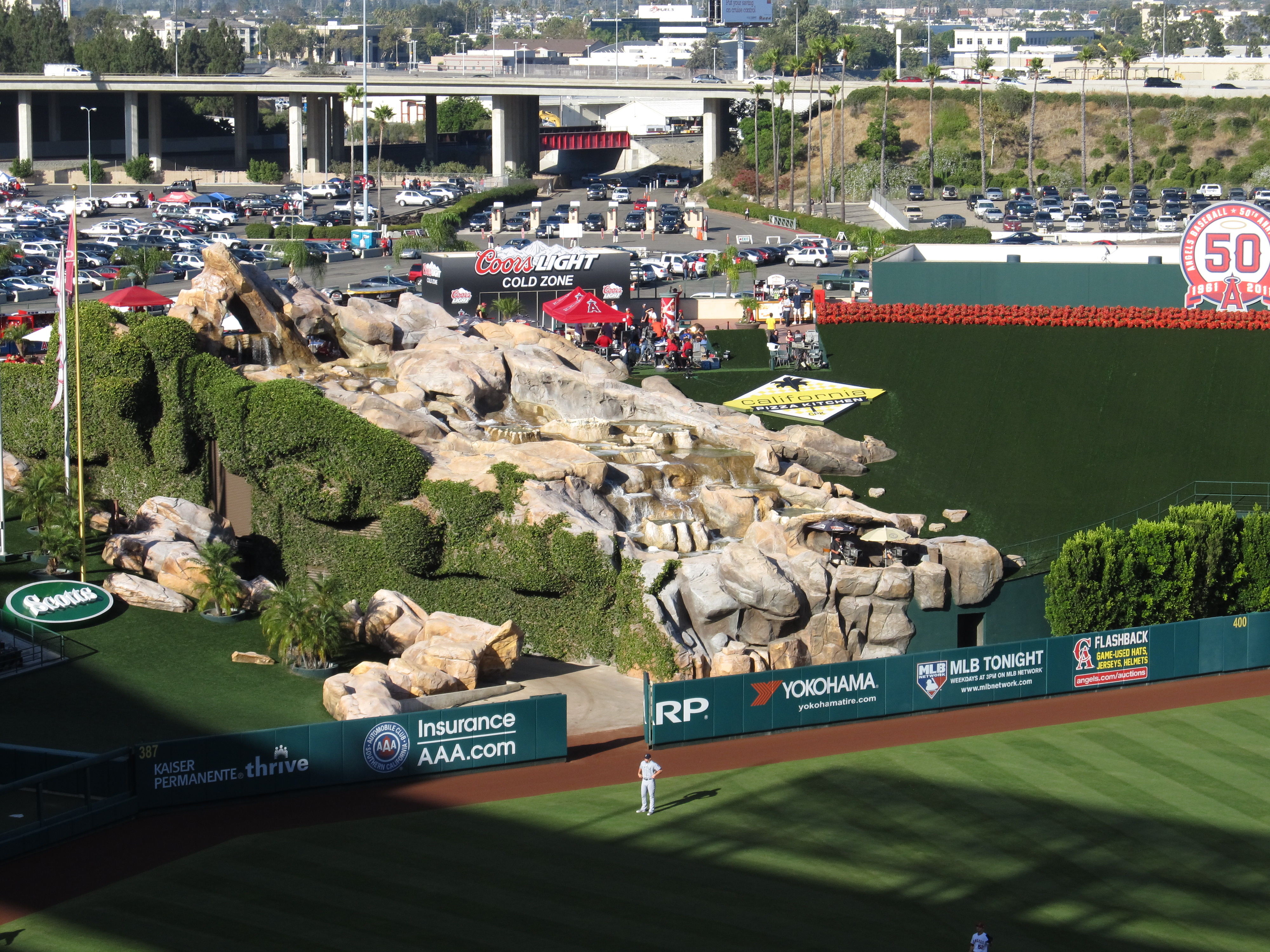 The centerfield rock pile at Angel Stadium, also known as the "California Spectacular"